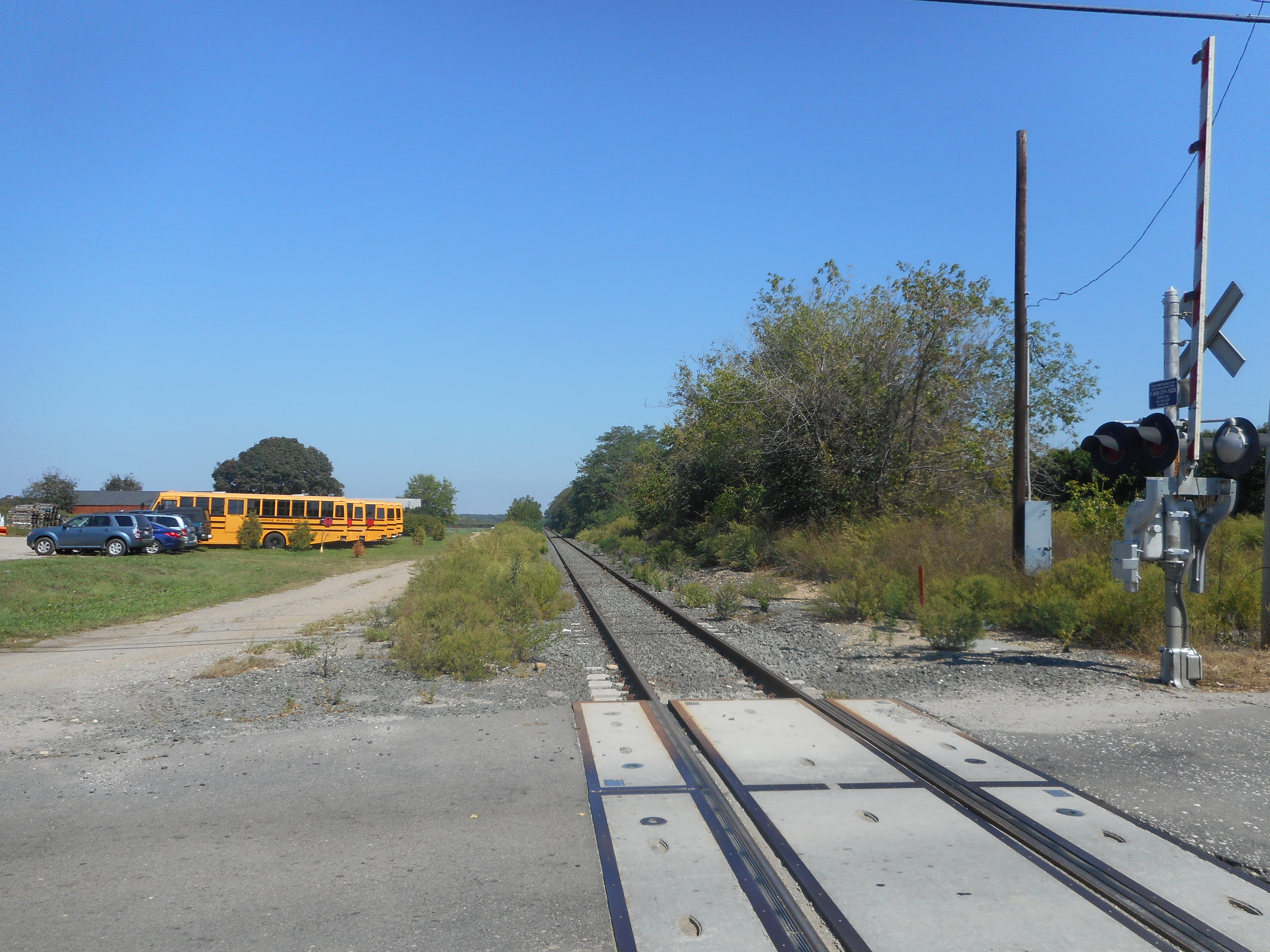 Greenport-bound view of the Main Line of the Long Island Rail Road at the Depot Lane crossing near the site of the former Cutchogue LIRR station in Cutchogue, New York.